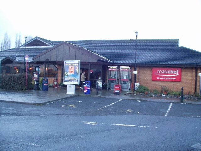 Bothwell Services